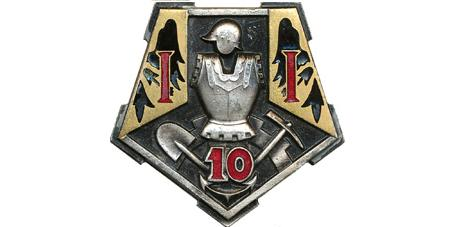 10st Regiment regimental badge engineering.